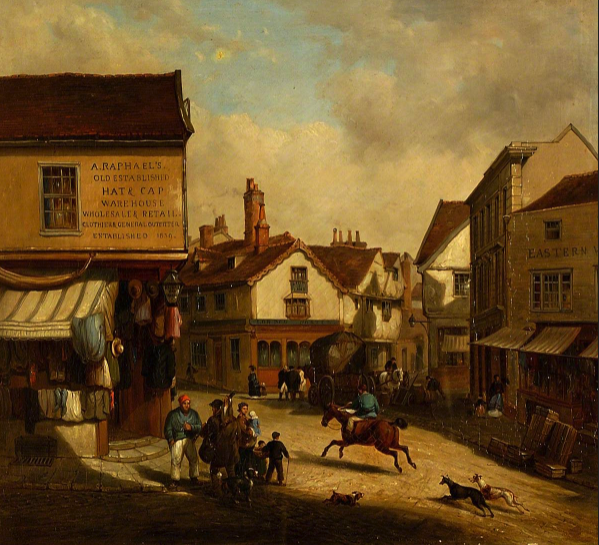 Nineteenth century English street scene with buildings with hat shop passersby, a horse and rider and dogs